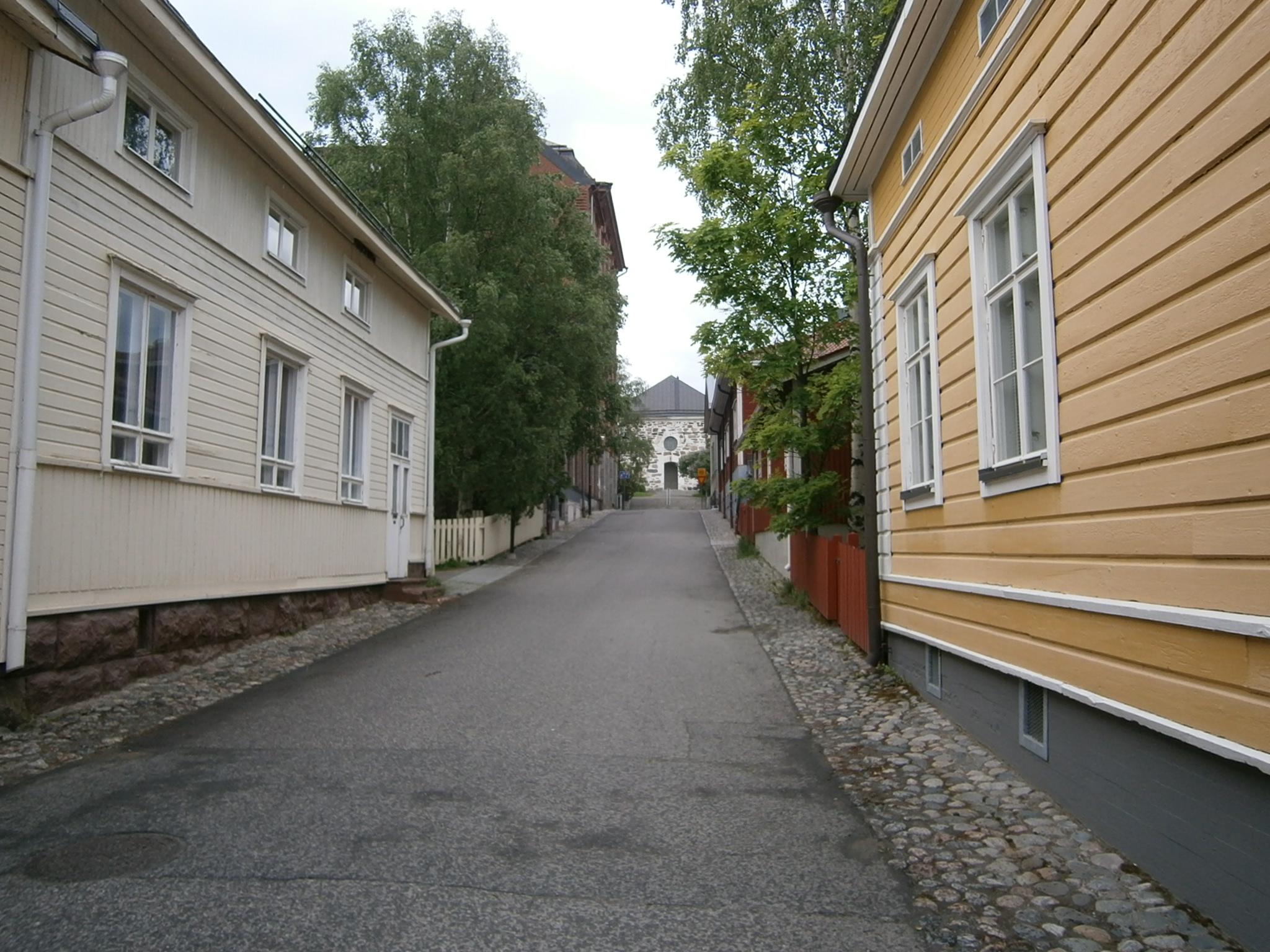 Rännikatu Kuopiossa